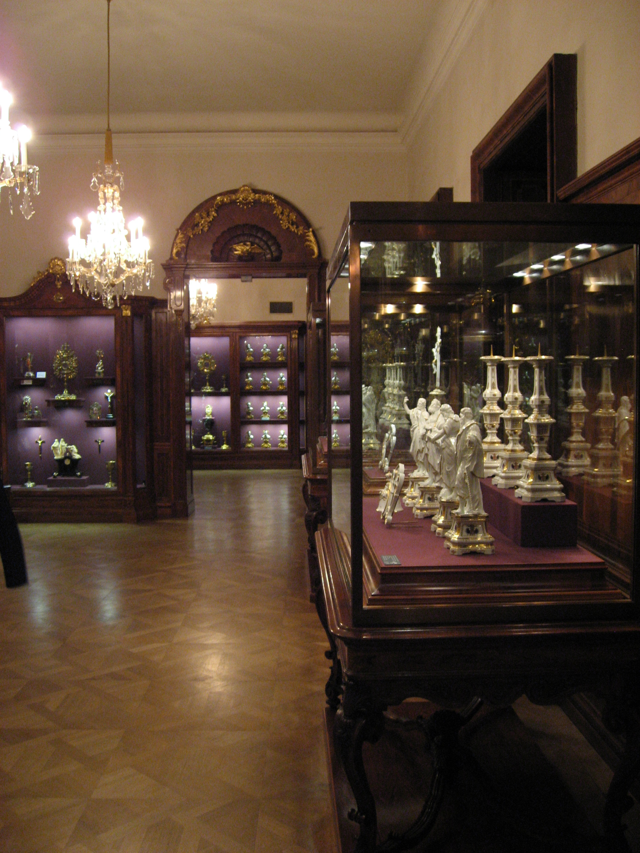 The Ecclesiastical Treasury (Geistliche Schatzkammer) in the Hofburg in Vienna.